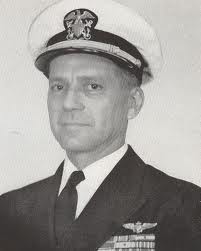 Frank o`Beirne